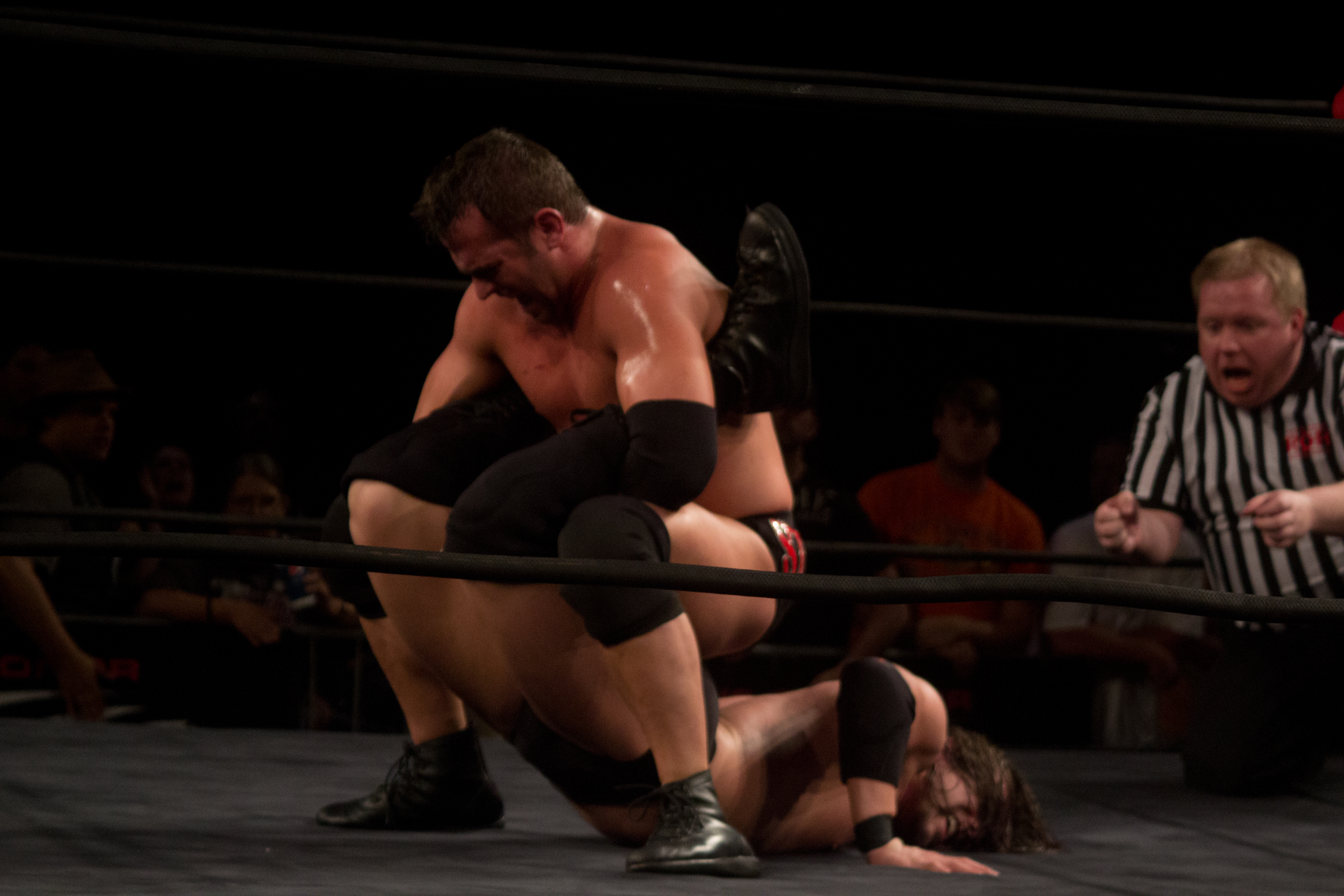 Roderick Strong performing a Boston crab on Adam Cole at a Ring of Honor event o September 7, 2013.